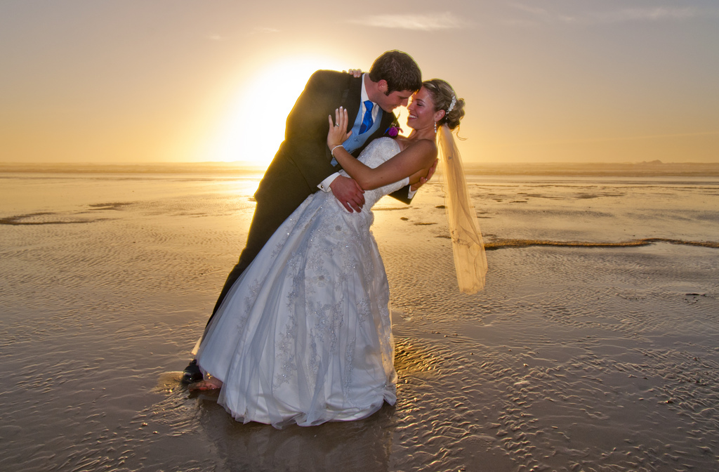 Trash the dress photograph taken on the beach in the ocean at sunset with the groom during the cocktail hour of the reception.